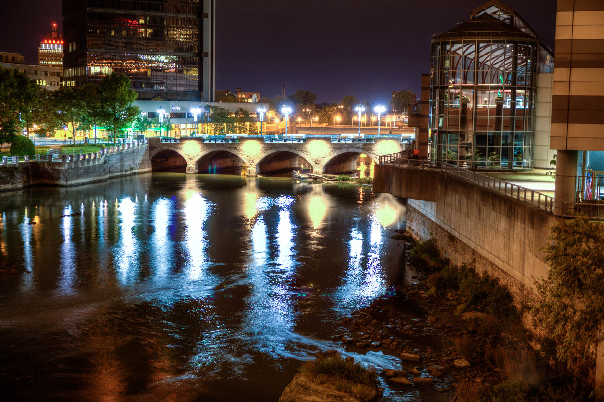 The aqueduct over the Genesee at night in Rochester, New York